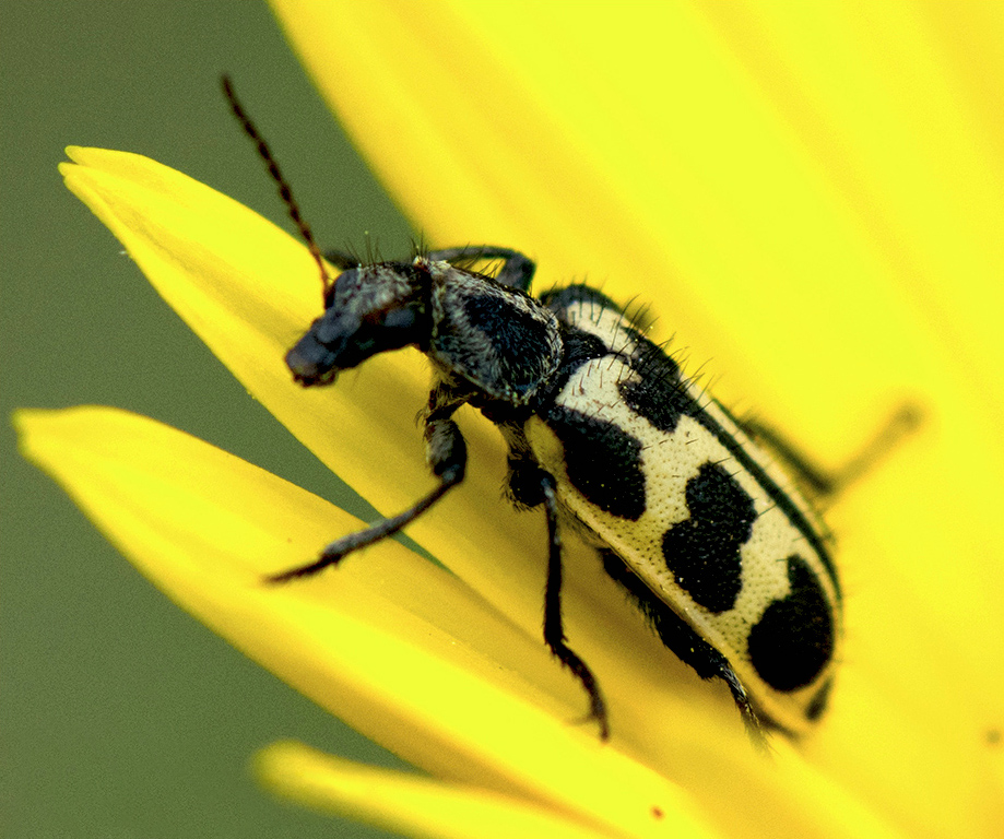 Astylus atromaculatus Blanchard. Coleoptera: Melyridae. Astylus beetle, Spotted maize beetle on flower of member of Asteraceae